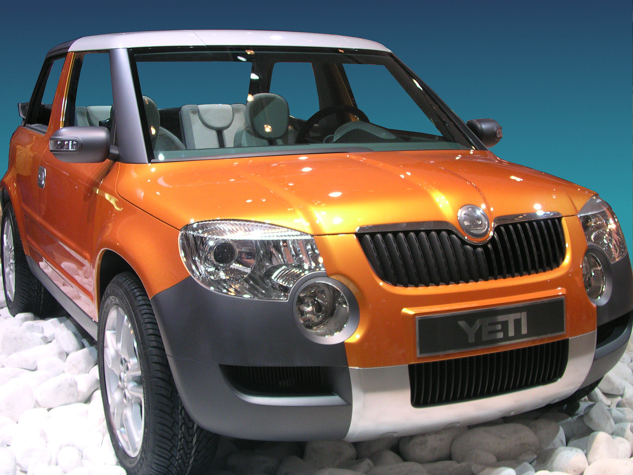 Škoda Yeti